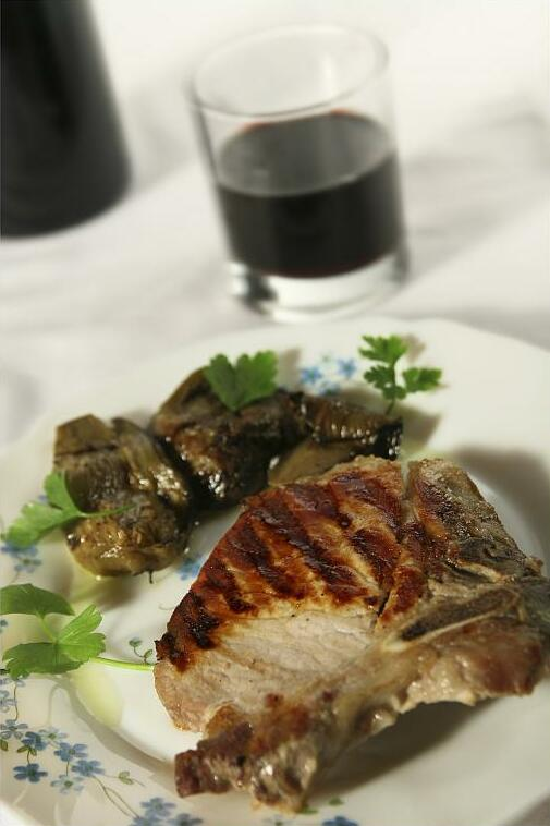 Pork braciola and grilled aubergines.